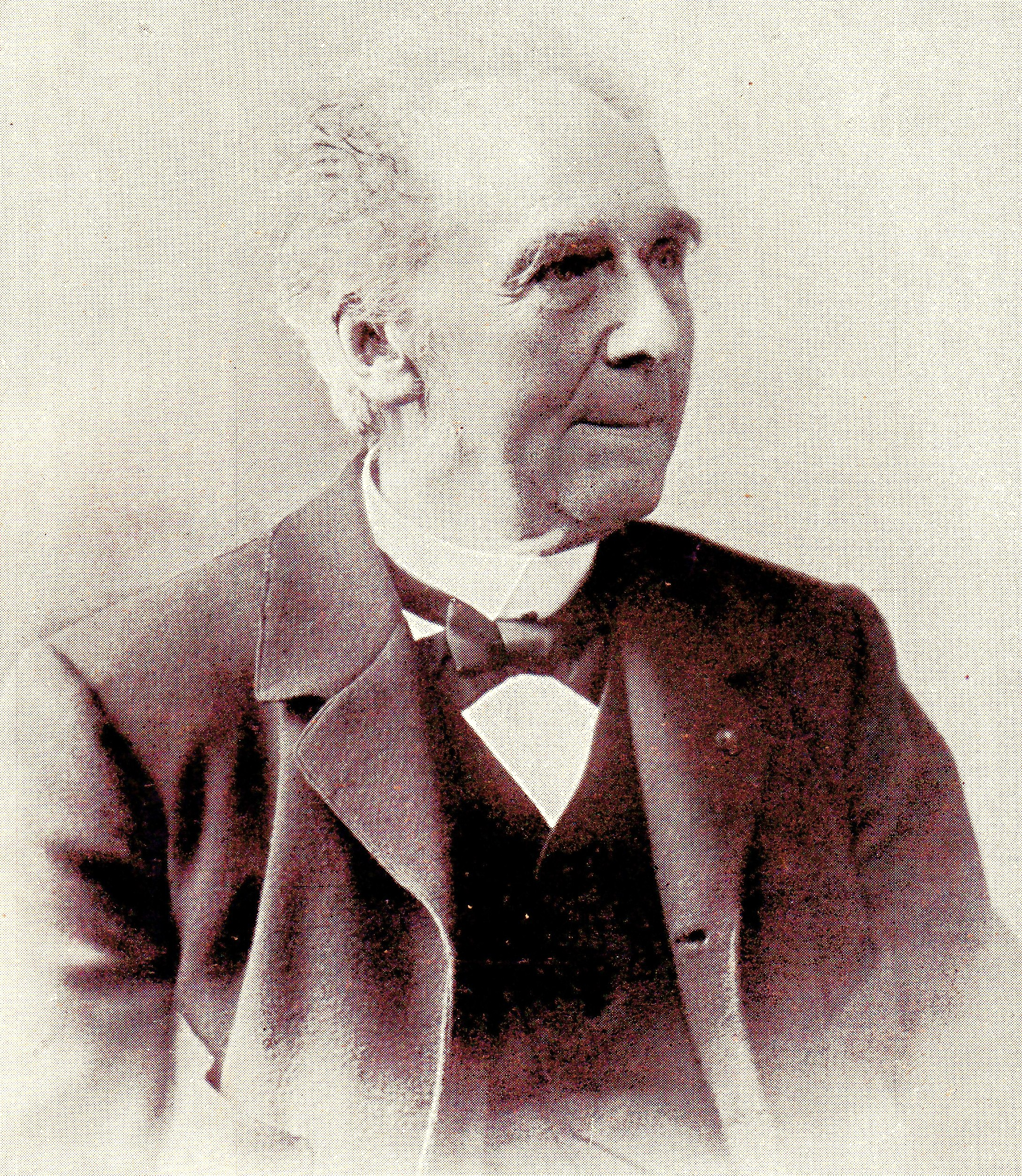 Mr. J.H. Geertsema